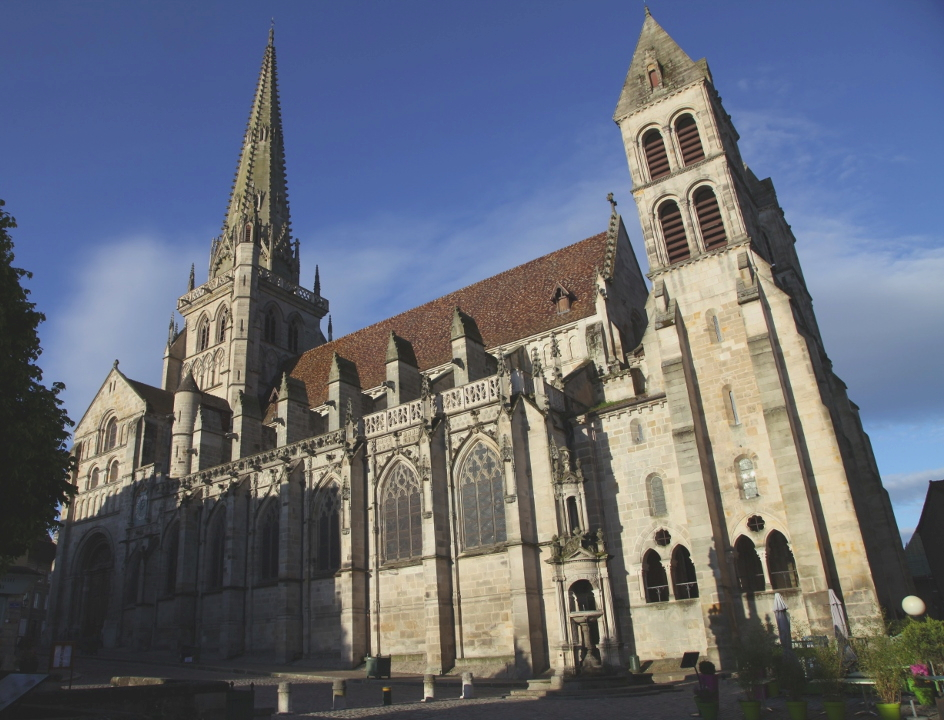 St Lazare Cathedral Autun Burgundy France .